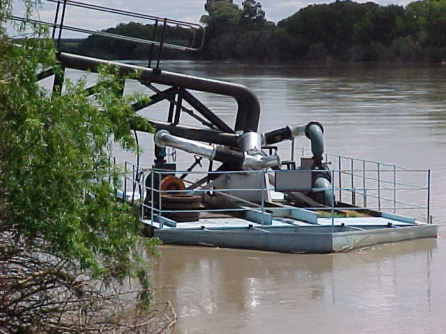 Water pumping station on the Orange River, Orania